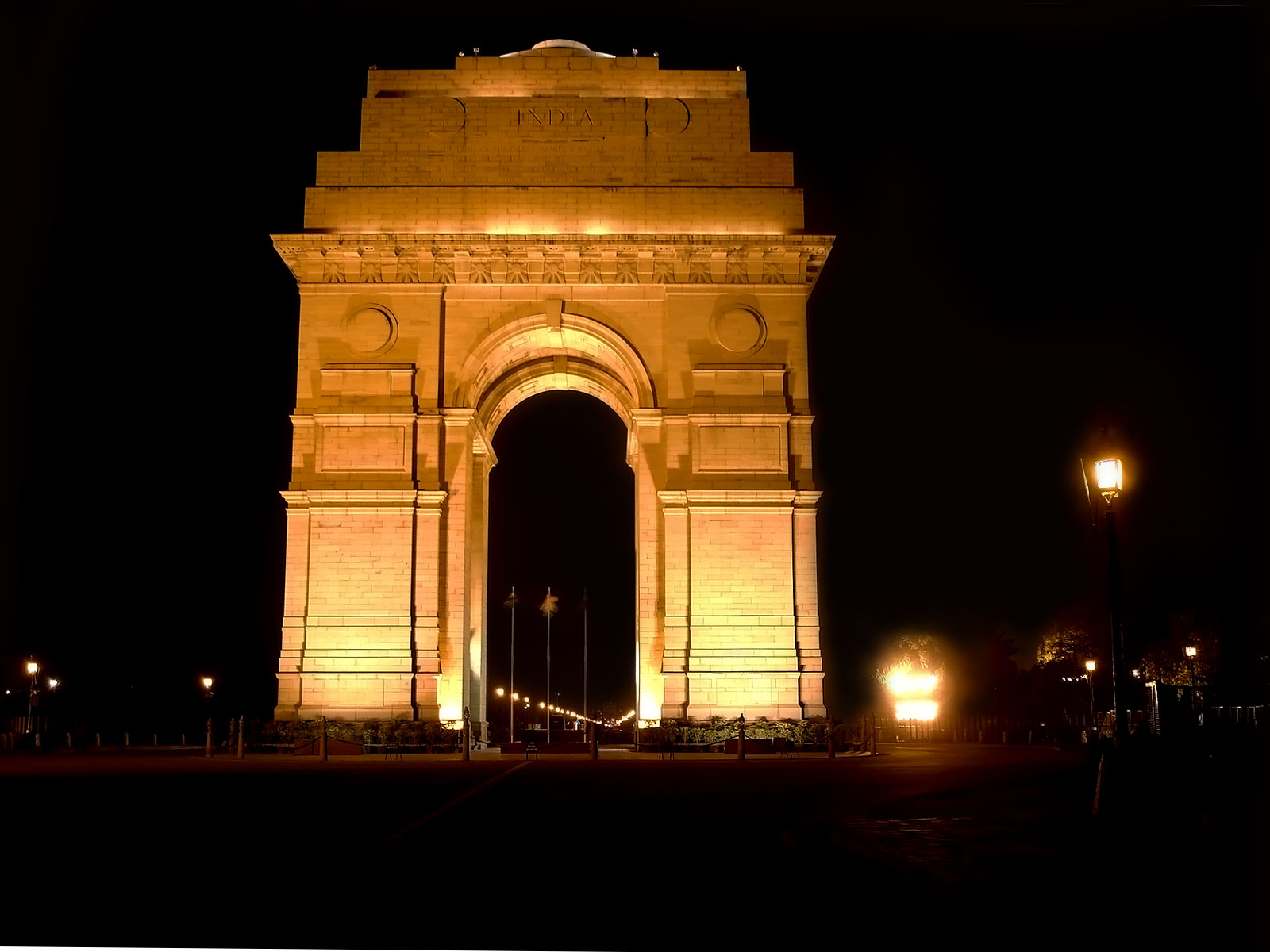 The India Gate looking towards Rashtrapati Bhavan.